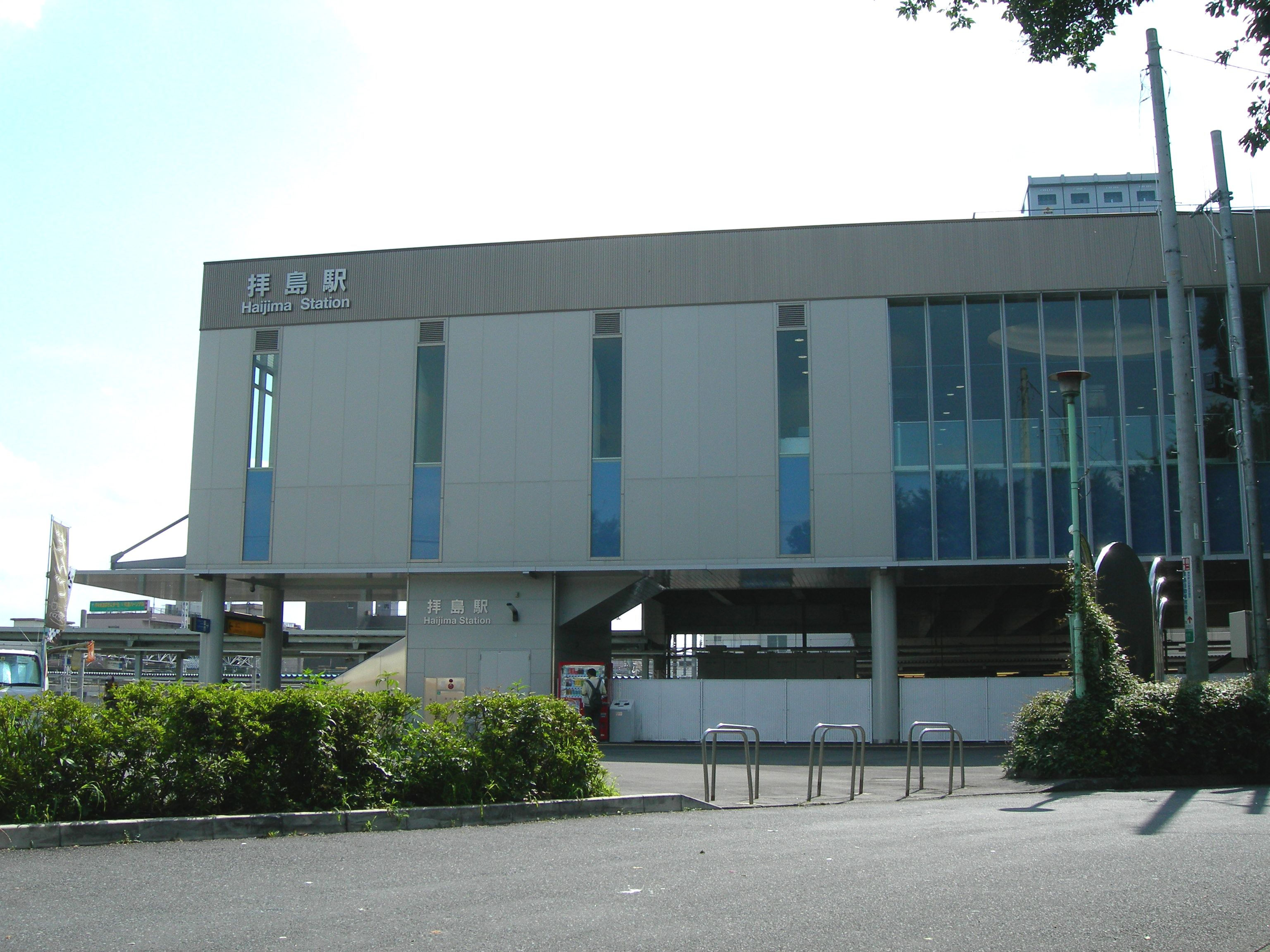 Haijima Station North entrance